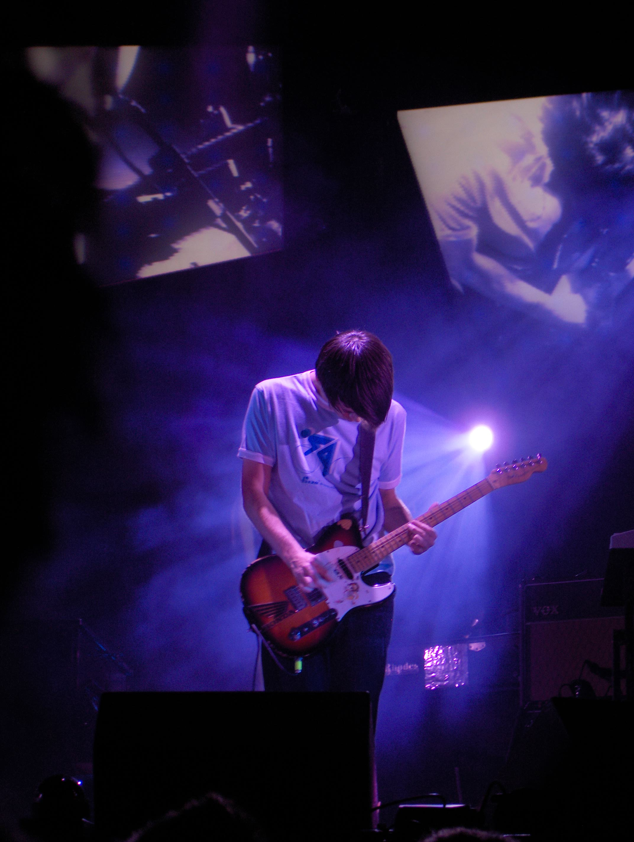 Self-made picture of Johnny Greenwood (Radiohead) made in Avenches 2006.